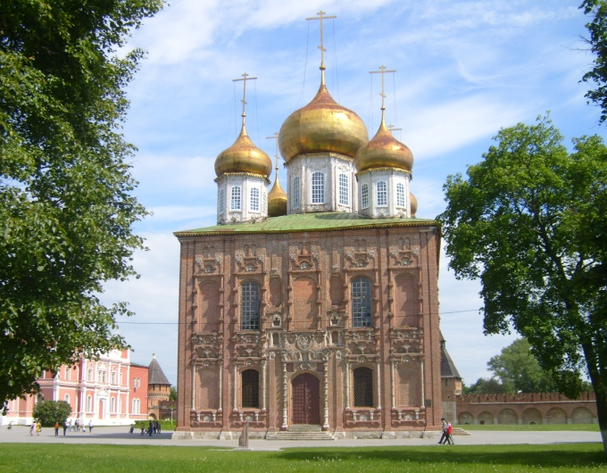 Uspenskiy Cathedral of the Tula Kremlin